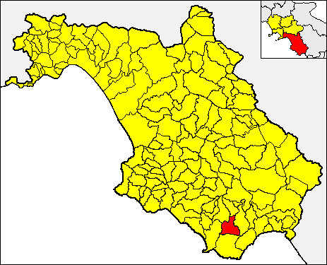 Locator map of the municipality of Celle di Bulgheria (red) within the Province of Salerno